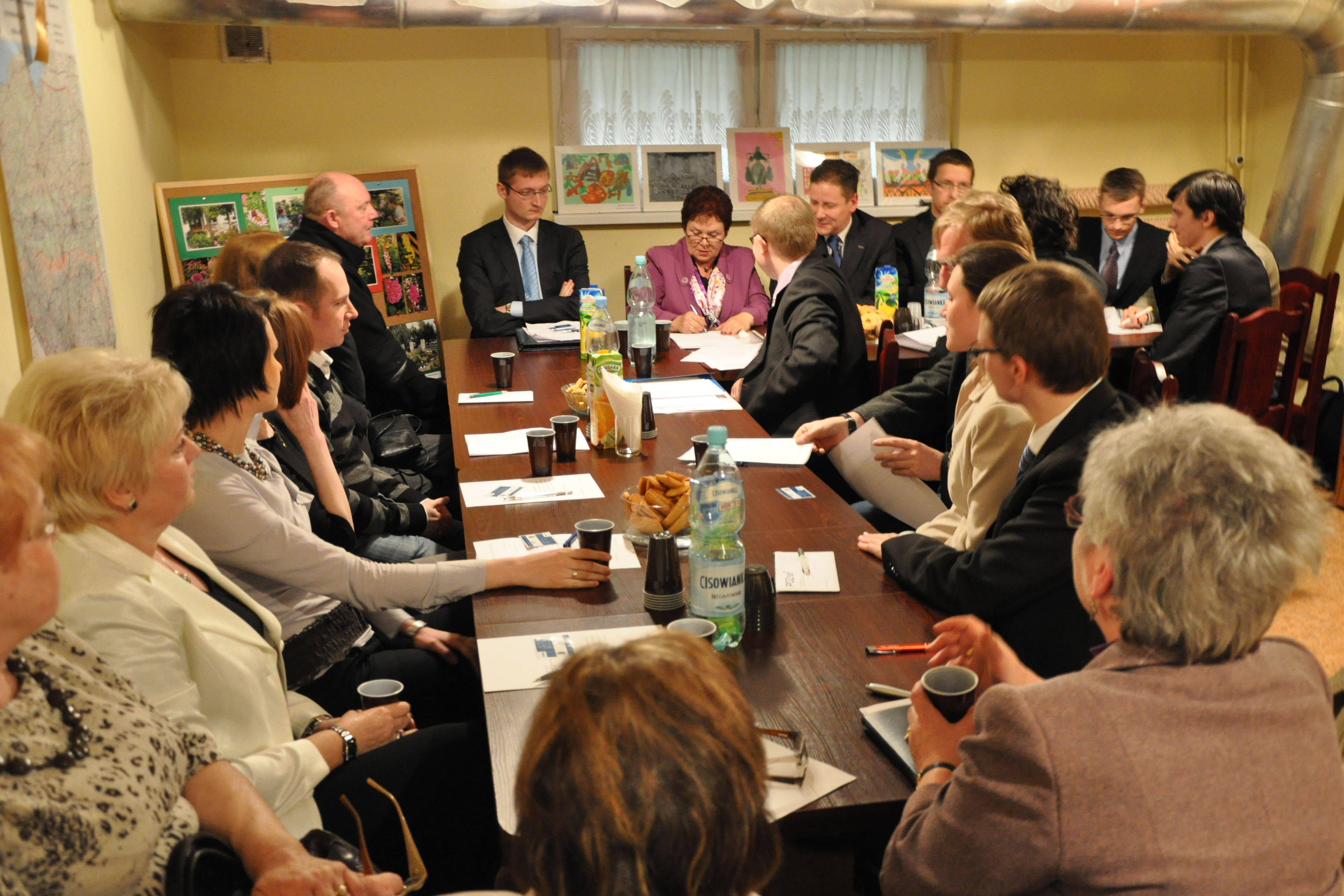 Borough Council of Piątkowo, Poznań, Poland